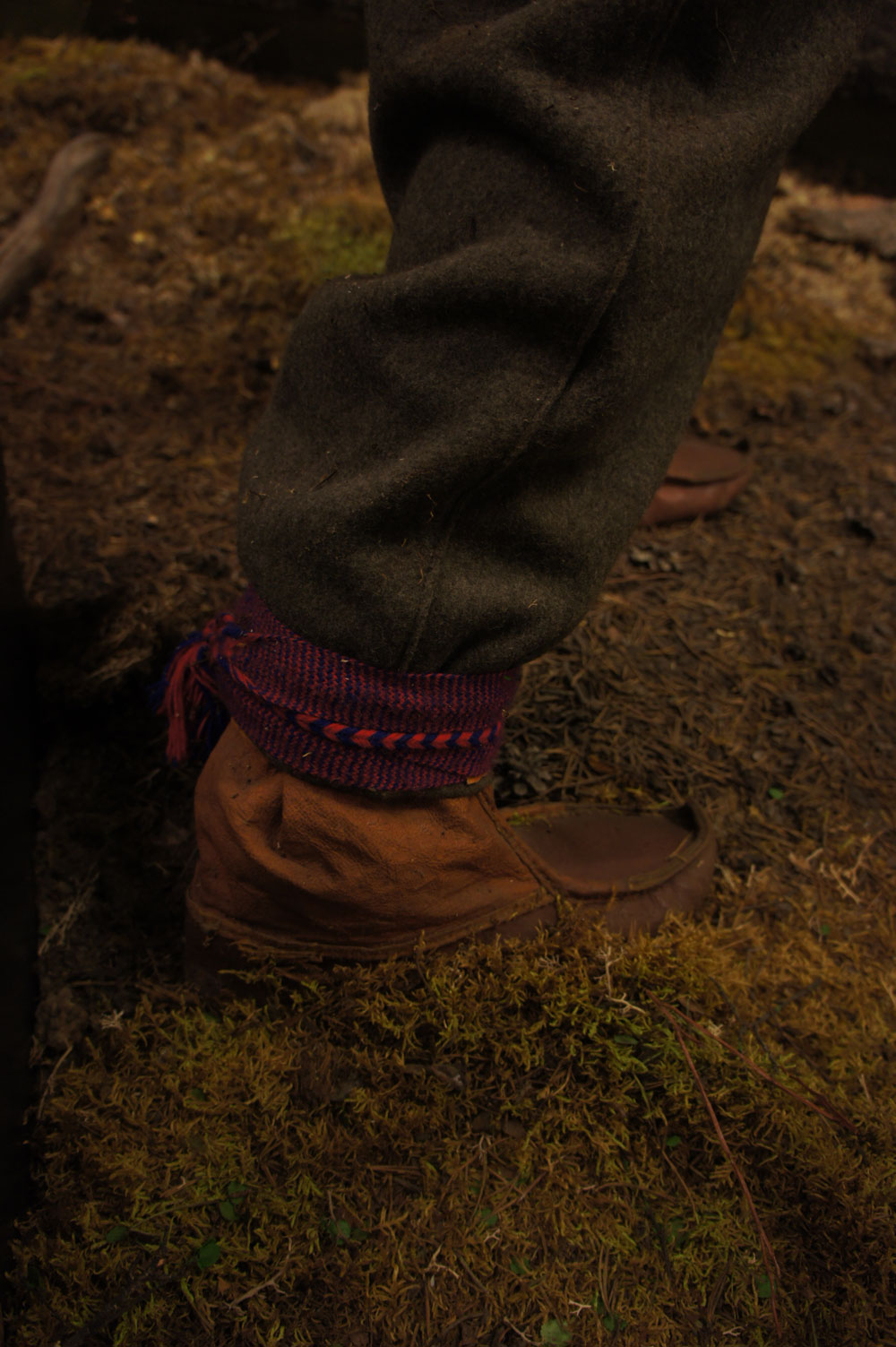 Male Sámi shoe lace from the central area. Photo from Ájtte museum.